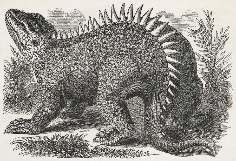 Hylaeosaurus by Benjamin Waterhouse Hawkins (1807-1889) from Johnsons Natural History 1871 United States